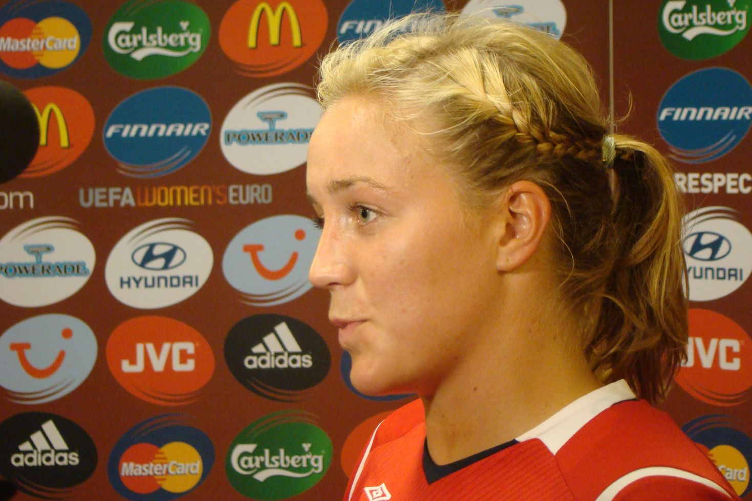 Norwegian soccer player Anneli Giske